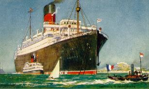 A postcard view of the British ocean liner "RMS Andania" of the Cunard Line. She was torpedoed and sunk near Reykjavik, Iceland by a German U-boat during World War II.